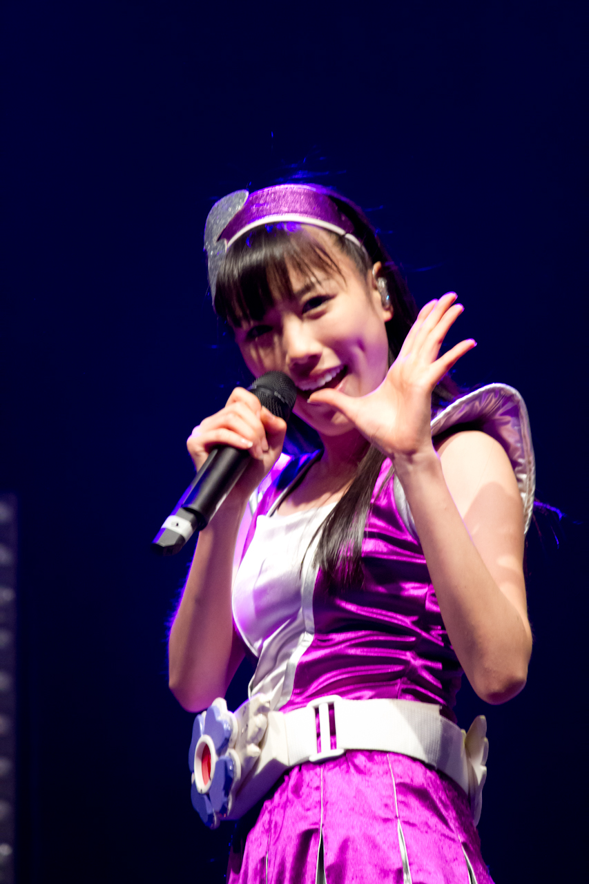 Japan Expo 13 - 2012 Cover pics by Dj ph All sets here : bit.ly/LHdWLq